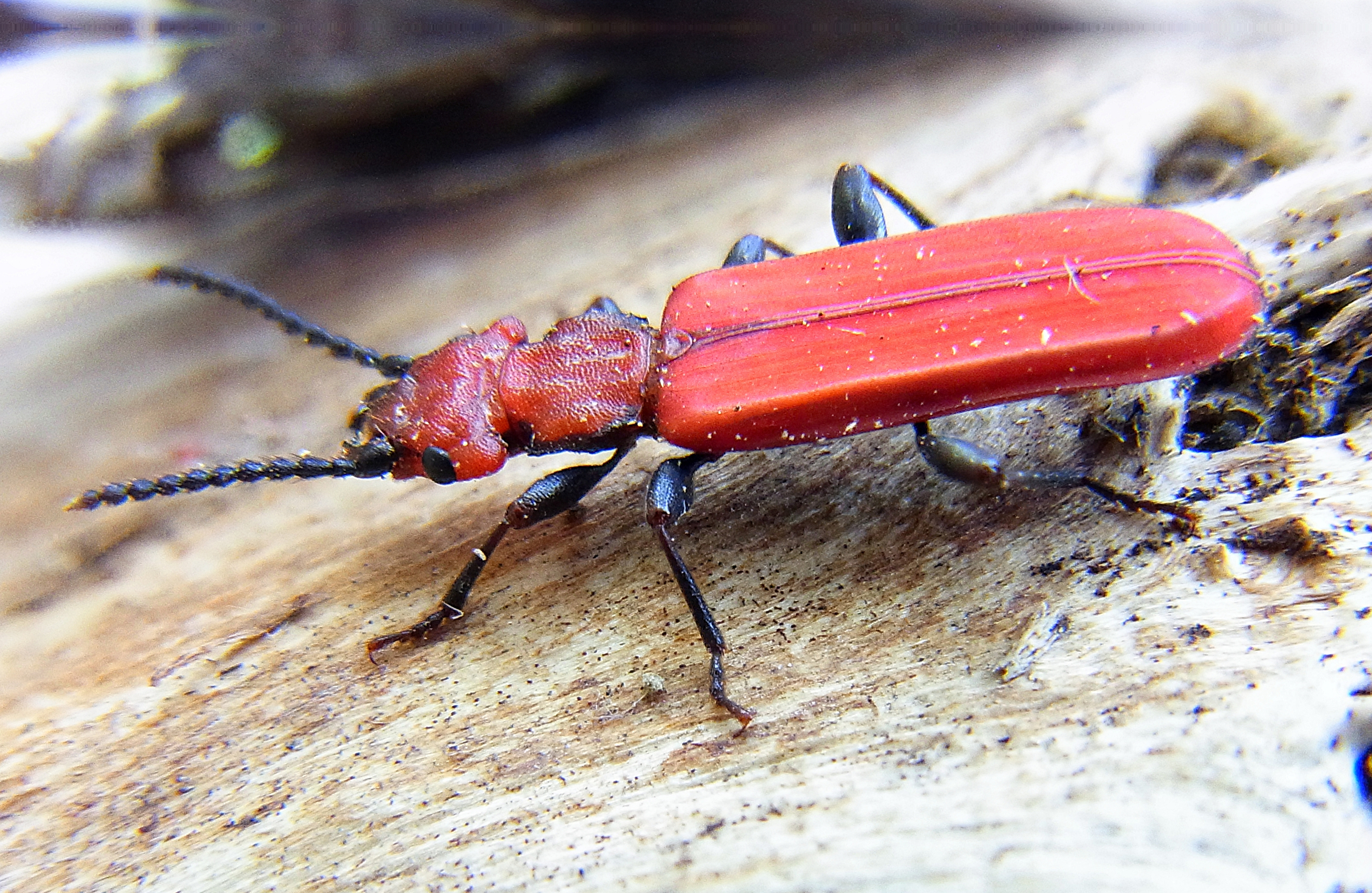 Cucujus cinnaberinus from Hungary, forest beside river Tisza, northeast of town Szolnok, under bark of dead black poplar